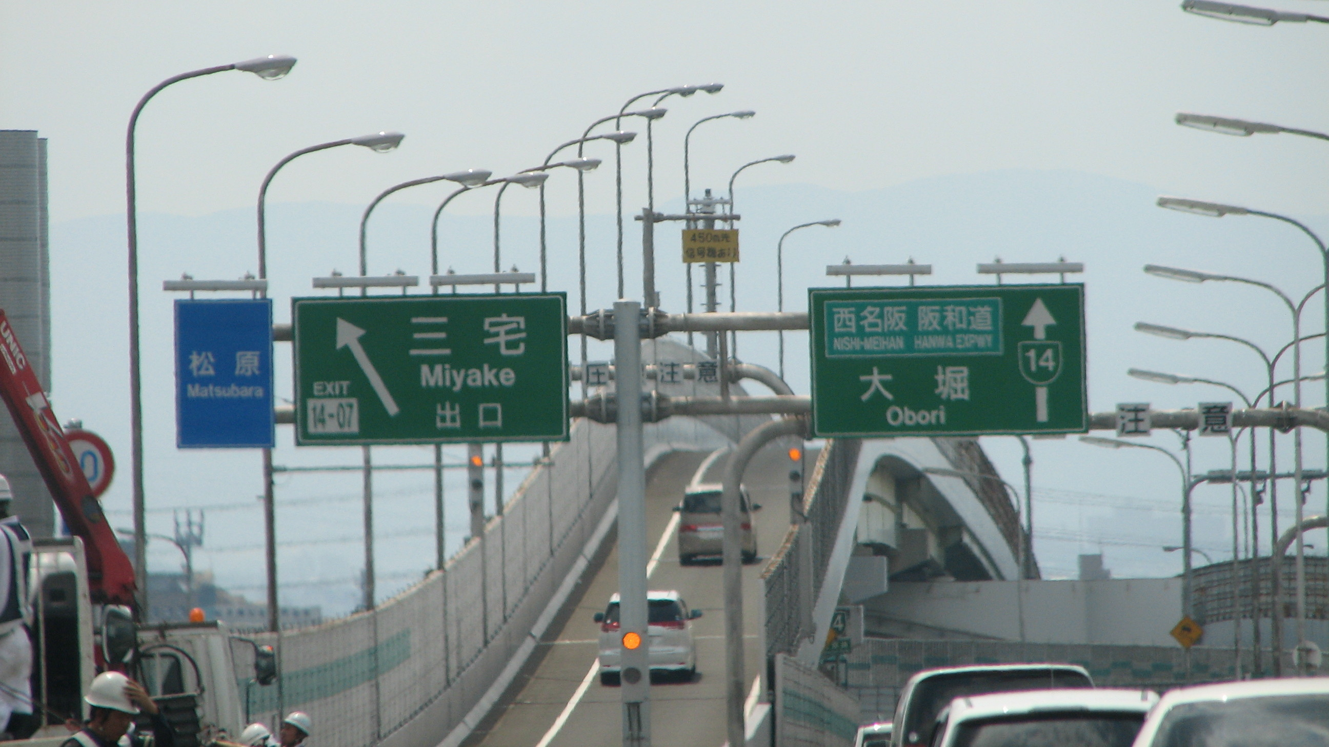 Hanshin Expressway Miyake IC